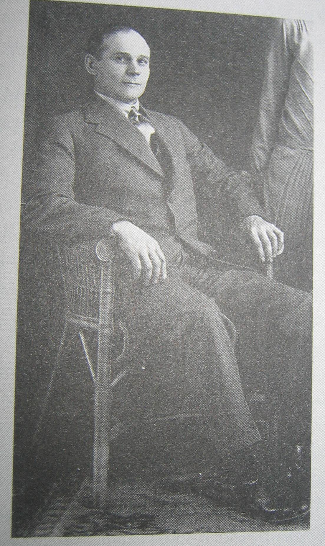 Finnish red guard leader Vihtori Saarinen